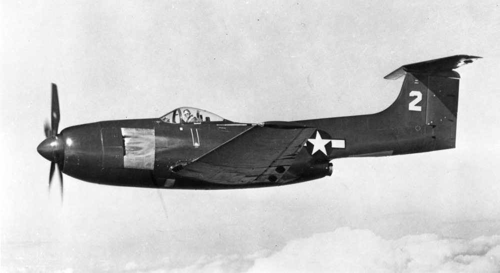 PictionID:41545509 - Title:Ray Wagner Collection Image - Catalog:16_000511 Curtiss XF15C-1 - Filename:16_000511 Curtiss XF15C-1.tif - Image from the Ray Wagner Collection. Ray Wagner was Archivist at the San Diego Air and Space Museum for several years and is an author of several books on aviation --- ---Please Tag these images so that the information can be permanently stored with the digital file.---Repository: San Diego Air and Space Museum